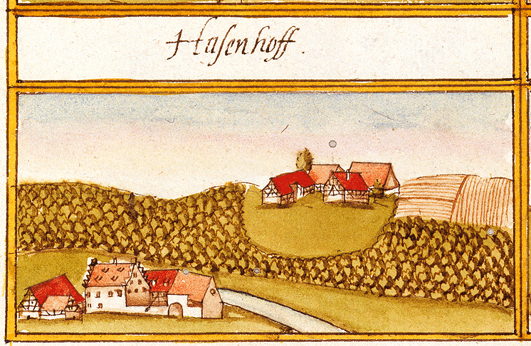 View of Hasenhof, Waldenbuch, from the forest register books created by Andreas Kieser